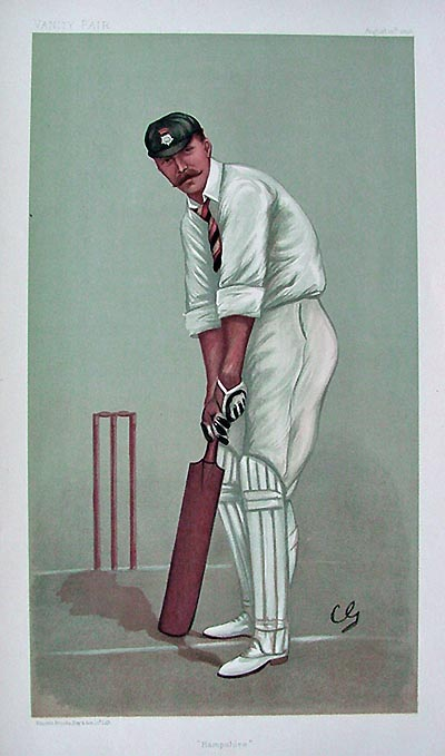 Caricature of Edward George "Teddy" Wynyard (1861 – 1936), England cricketer and Captain in the Welsh Regiment. Caption read "Hampshire".